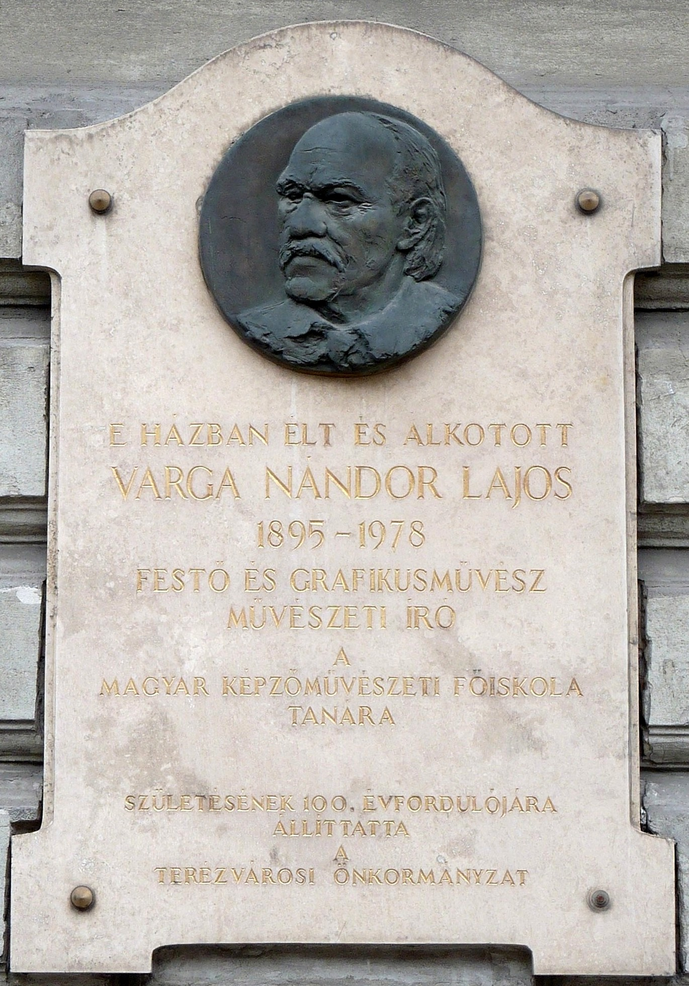 Commemorative plaque to Mr. Lajos Nándor Varga (1895-1978) Hungarian painter, graphic artist and art writer. It is affixed to the front of his former home. The author of the bronze relief is Ms. Judit Zsin. (Budapest, District VI, Andrássy Avenue Nr 84)